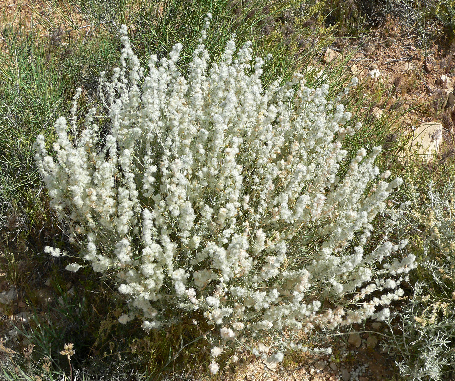 Krascheninnikovia lanata ('Winterfat') in Spring bloom (May). Growing in the southern end of Red Rock Canyon, near Blue Diamond, southern Nevada.